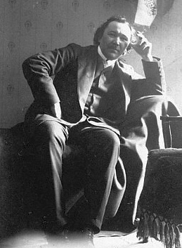 Eino Leino, a Finnish poet and journalist in 1912.